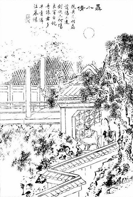 19th-century illustration of a scene from the short story "Nie Xiaoqian" collected in Strange Tales from a Chinese Studio (1740).